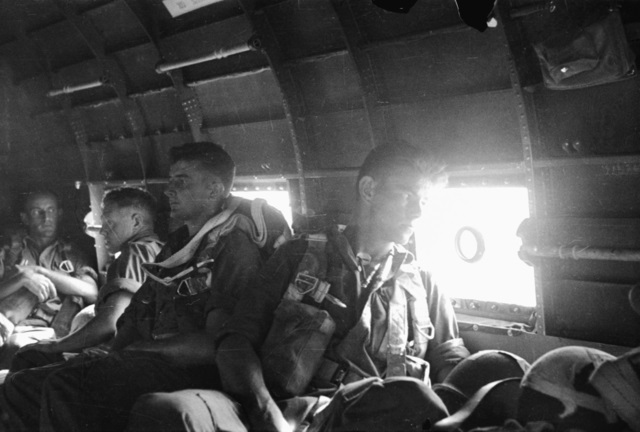 Australian War Memorial image 030141/10. Gunners from the Australian Army's 2/4th Field Regiment in a C-47 transport plane en-route to Nadzab in New Guinea where they later made a parachute landing.